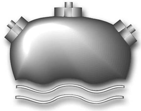 US Navy Mineman (MN). A floating mine.